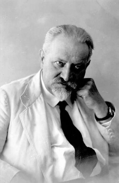 Davis Trietsch in Eretz Yisrael